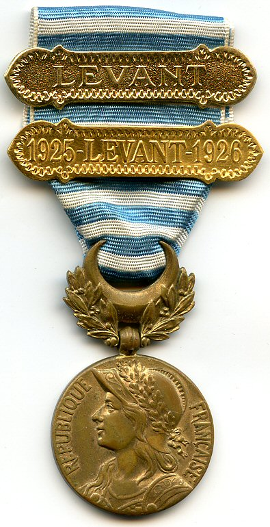 Syria-Cilicia campaign medal, France, obverse